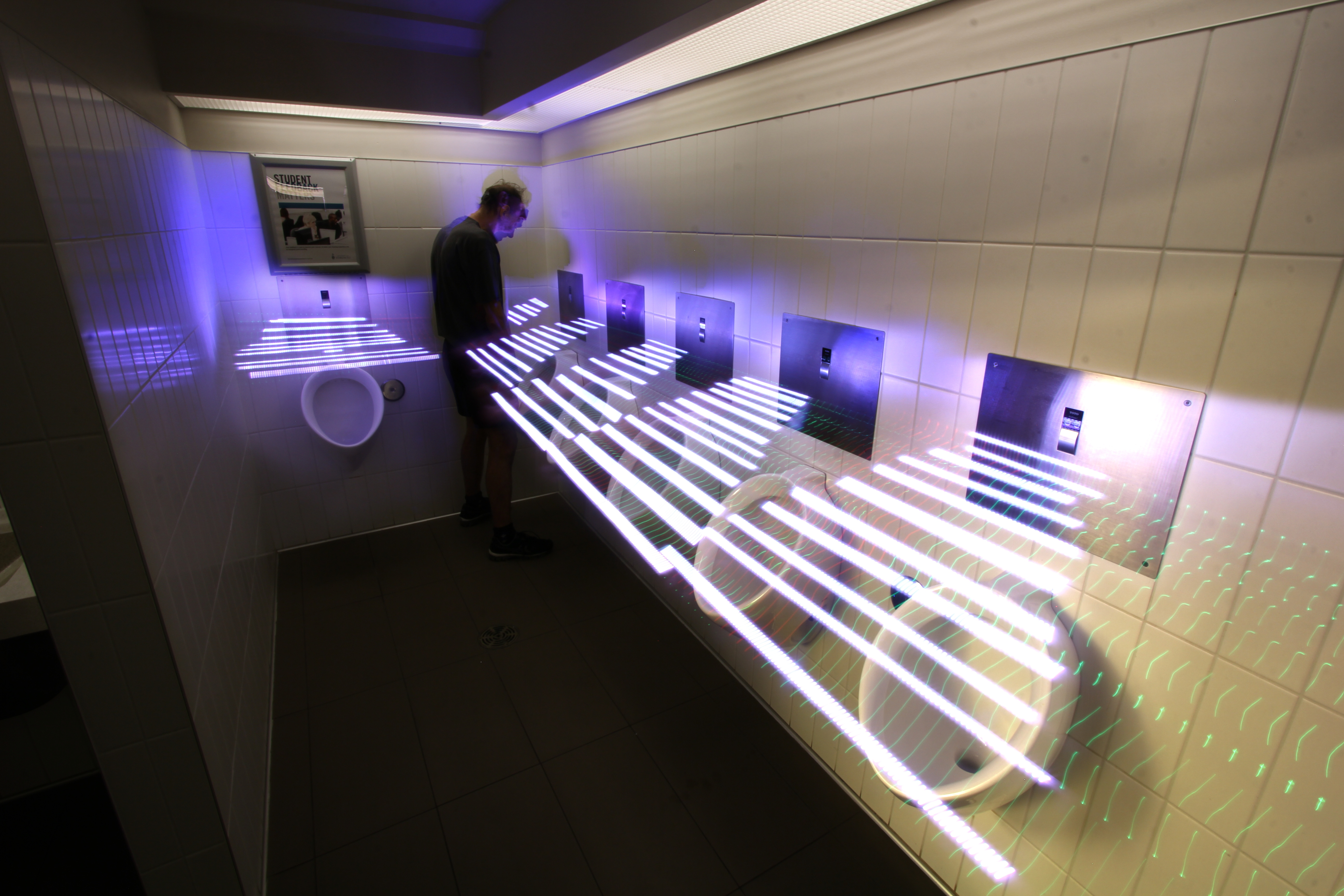 Lights-in-motion become sight-in-motion: Surveilluminescent light strip shows the sightfield of an image array or vision sensor, by way of long-exposure photography. For more information